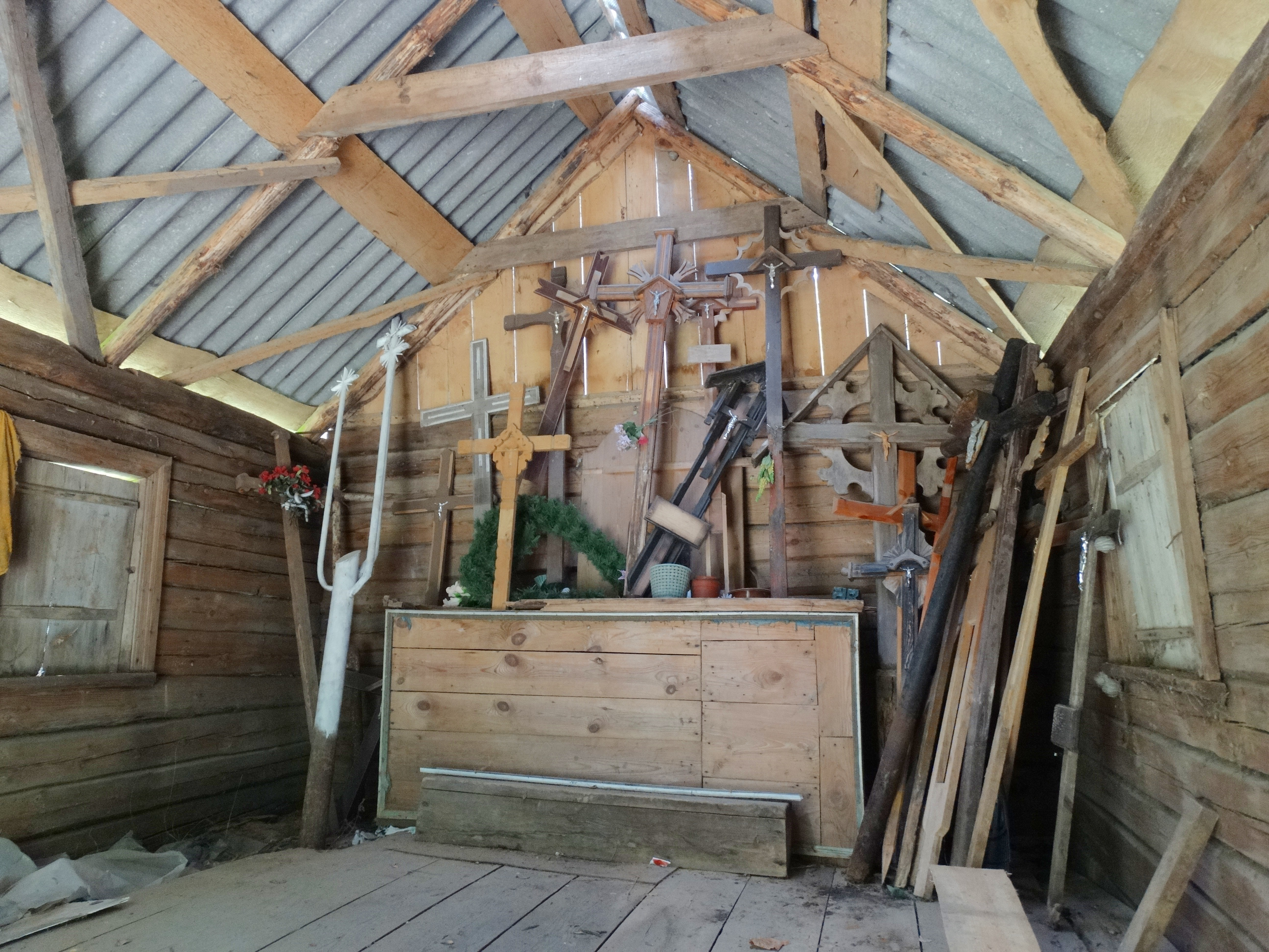 Chapel, Grybėnai, Ignalina District, Lithuania